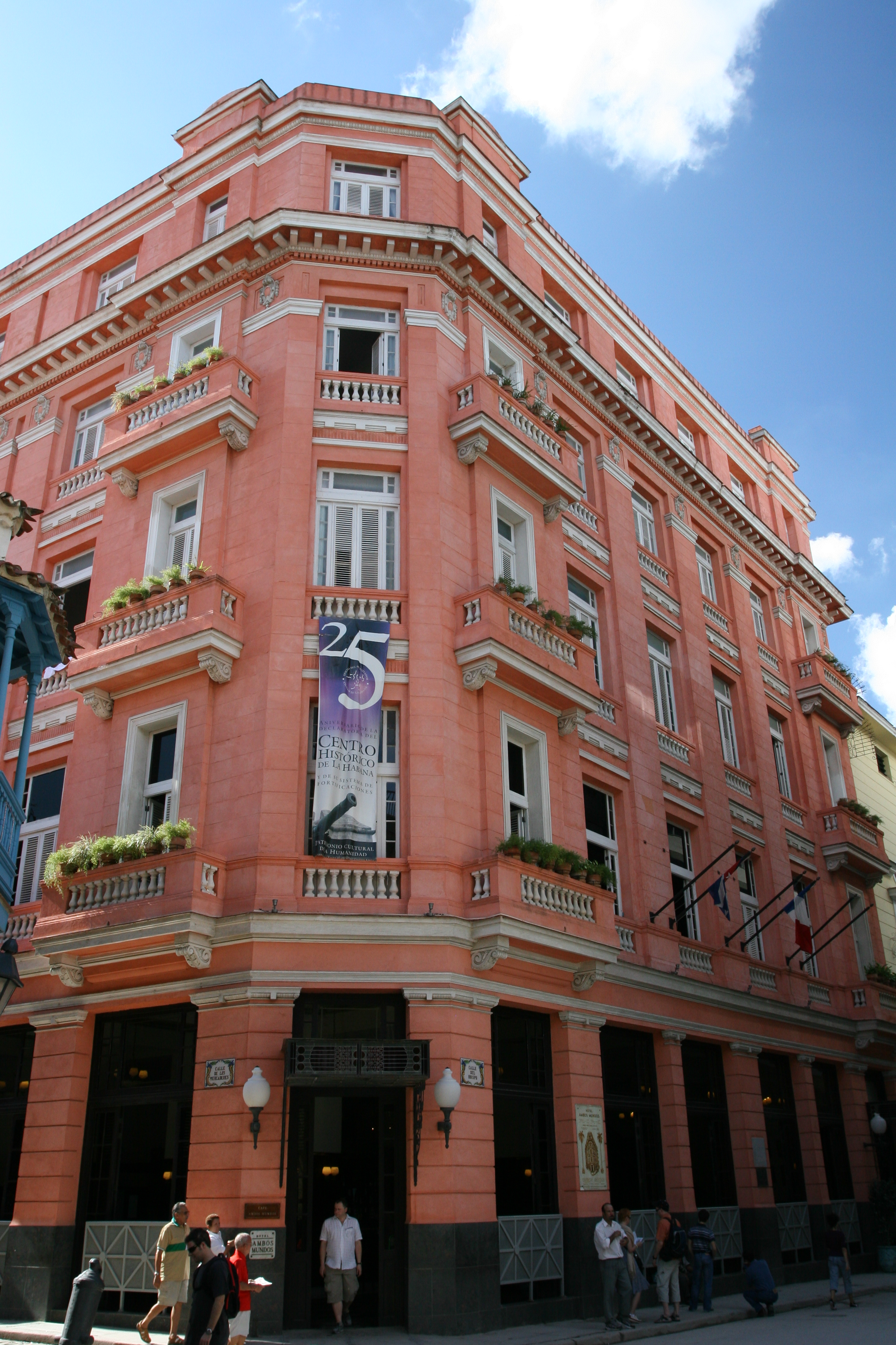 Where Hemingway wrote 'For Whom the Bell Tolls'.